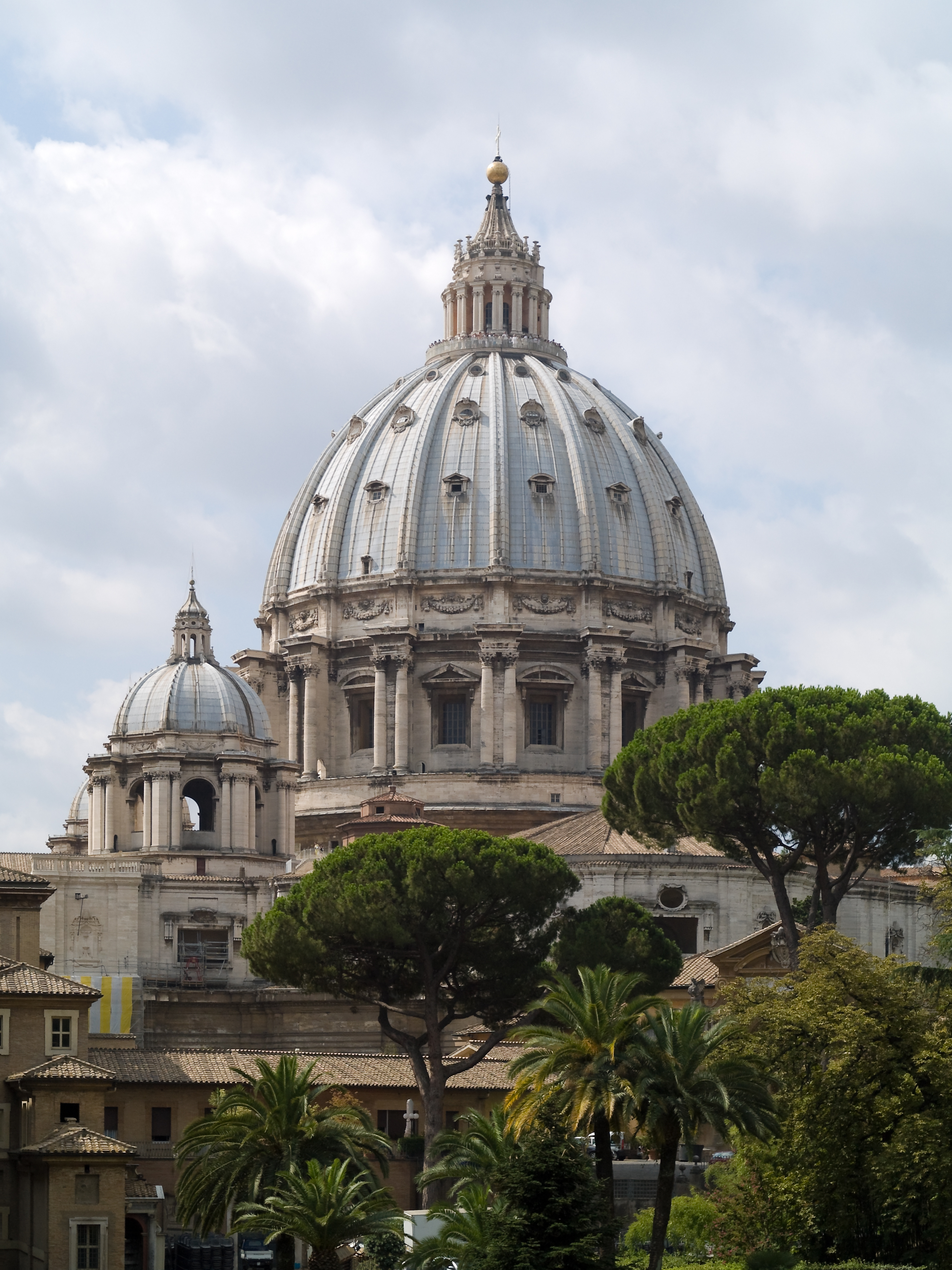 The dome of St. Peter's Basilica, seen from a gallery in the Vatican Museums.